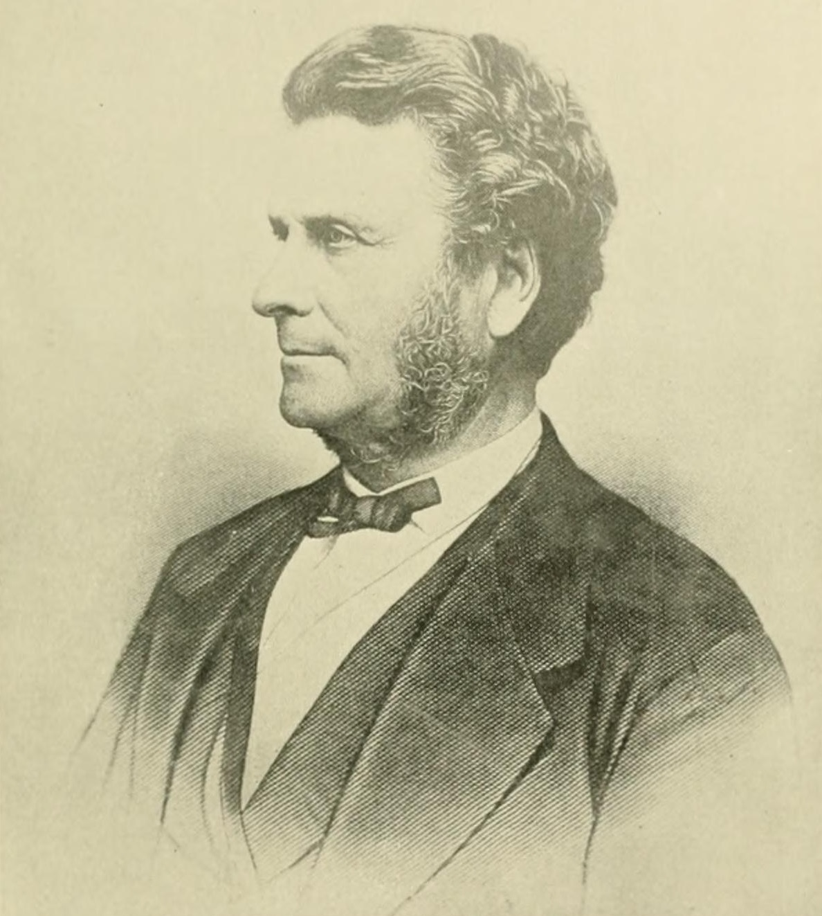 Amasa Junius Parker (US Congressman from New York)